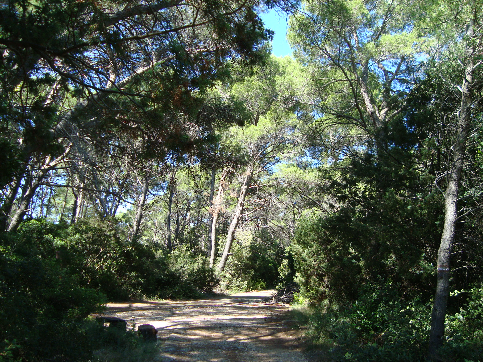 Woods in the National park Mljet, Croatia